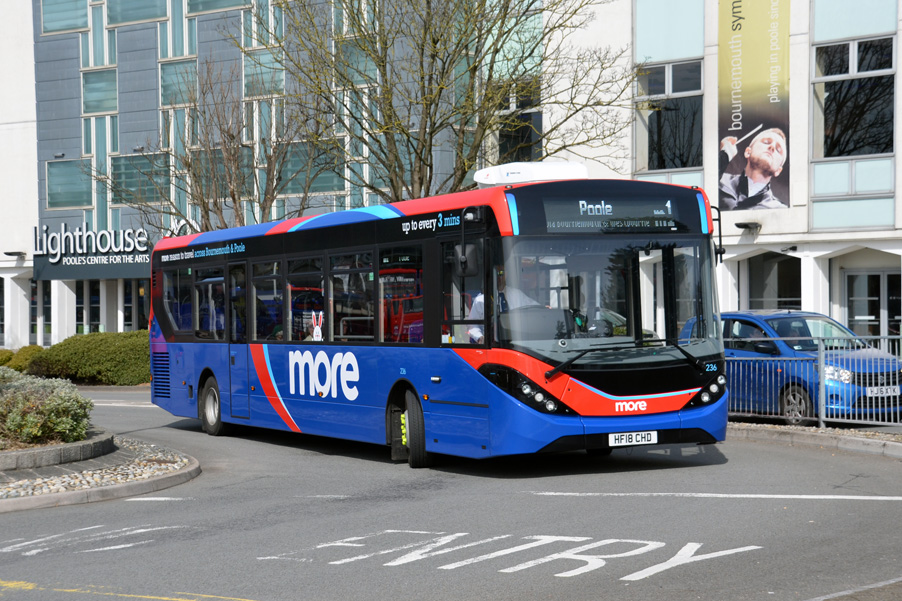 New more bus entering Poole bus station